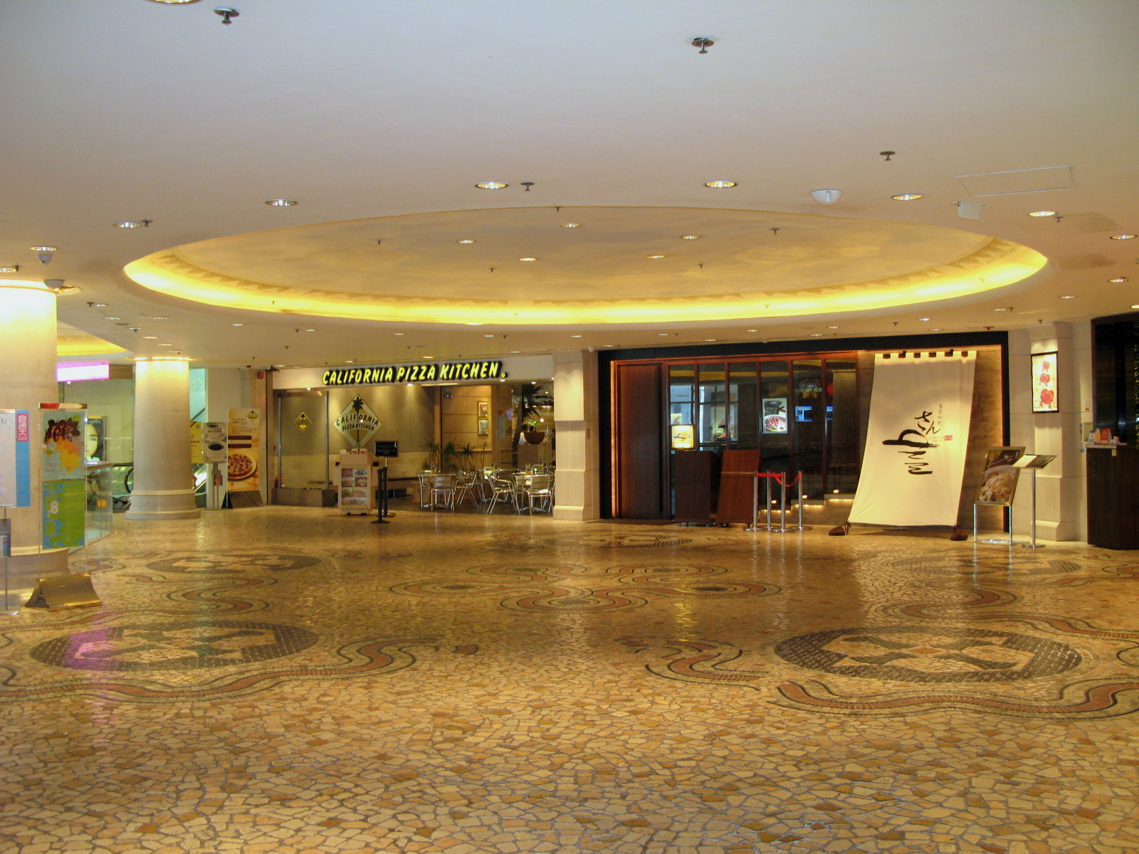 HK Time Square Food Forum 13F